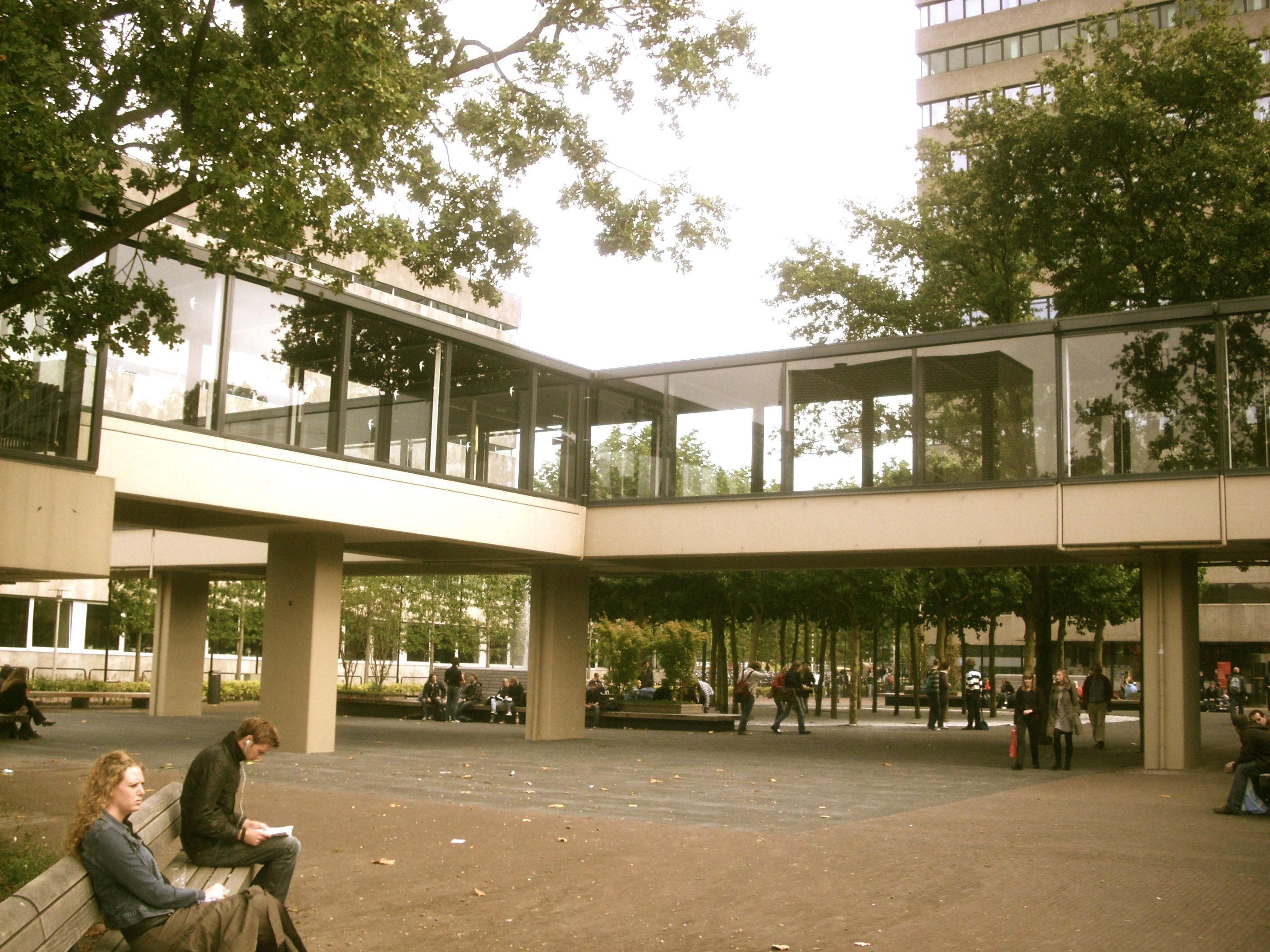 Radboud University Nijmegen campus